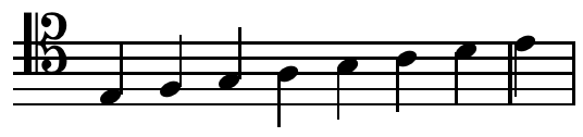 Diatonic scale on C, baritone C-clef.